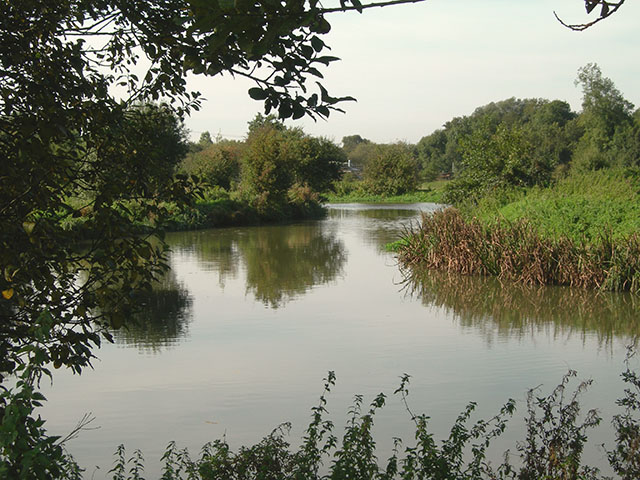 River Stort The last in a series of distinctive bends going east before the river swings round in a large arc to flow from the north